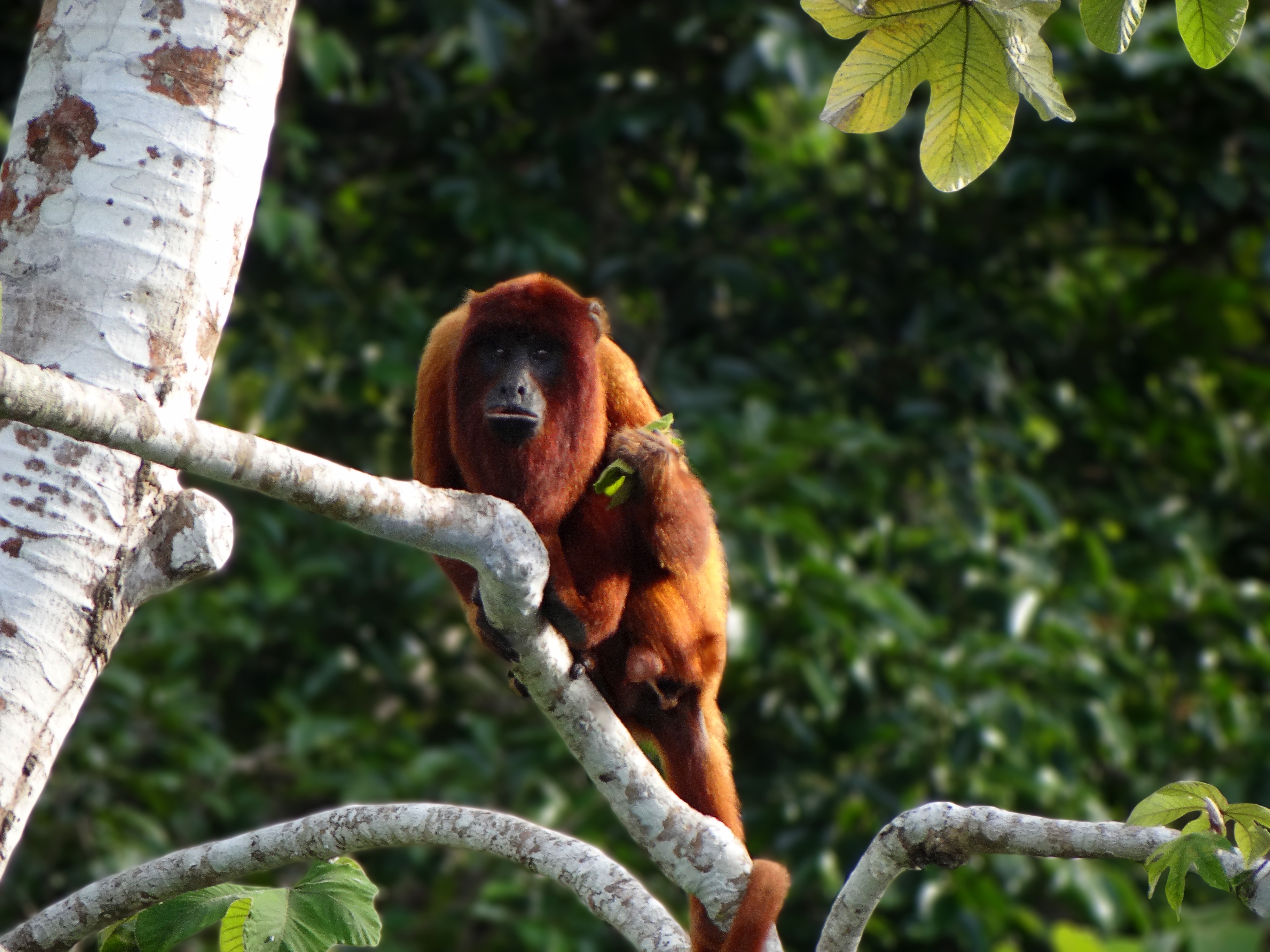 Bolivian red howler monkey (Alouatta sara) in Santa Rosa de Yacuma, Bolivia.